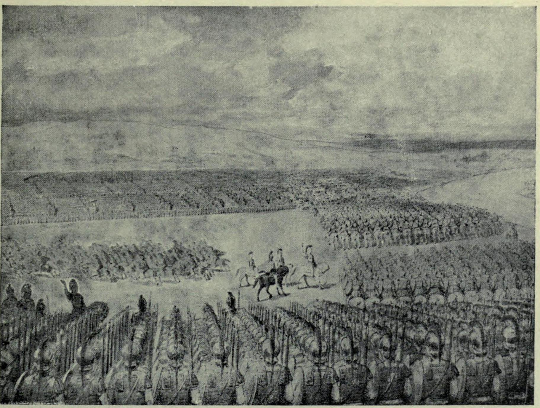 Porus awaits the attack of Alexander july 326 B.C.. From Hutchinson's story of the nations, containing the Egyptians, the Chinese, India, the Babylonian nation, the Hittites, the Assyrians, the Phoenicians and the Carthaginians, the Phrygians, the Lydians, and other nations of Asia Minor.